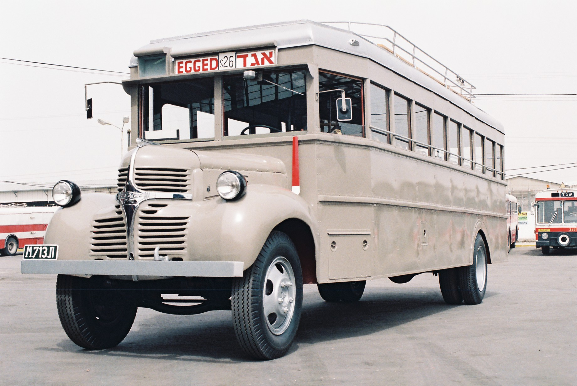 BUS, Transport in Israel Dodge old bus